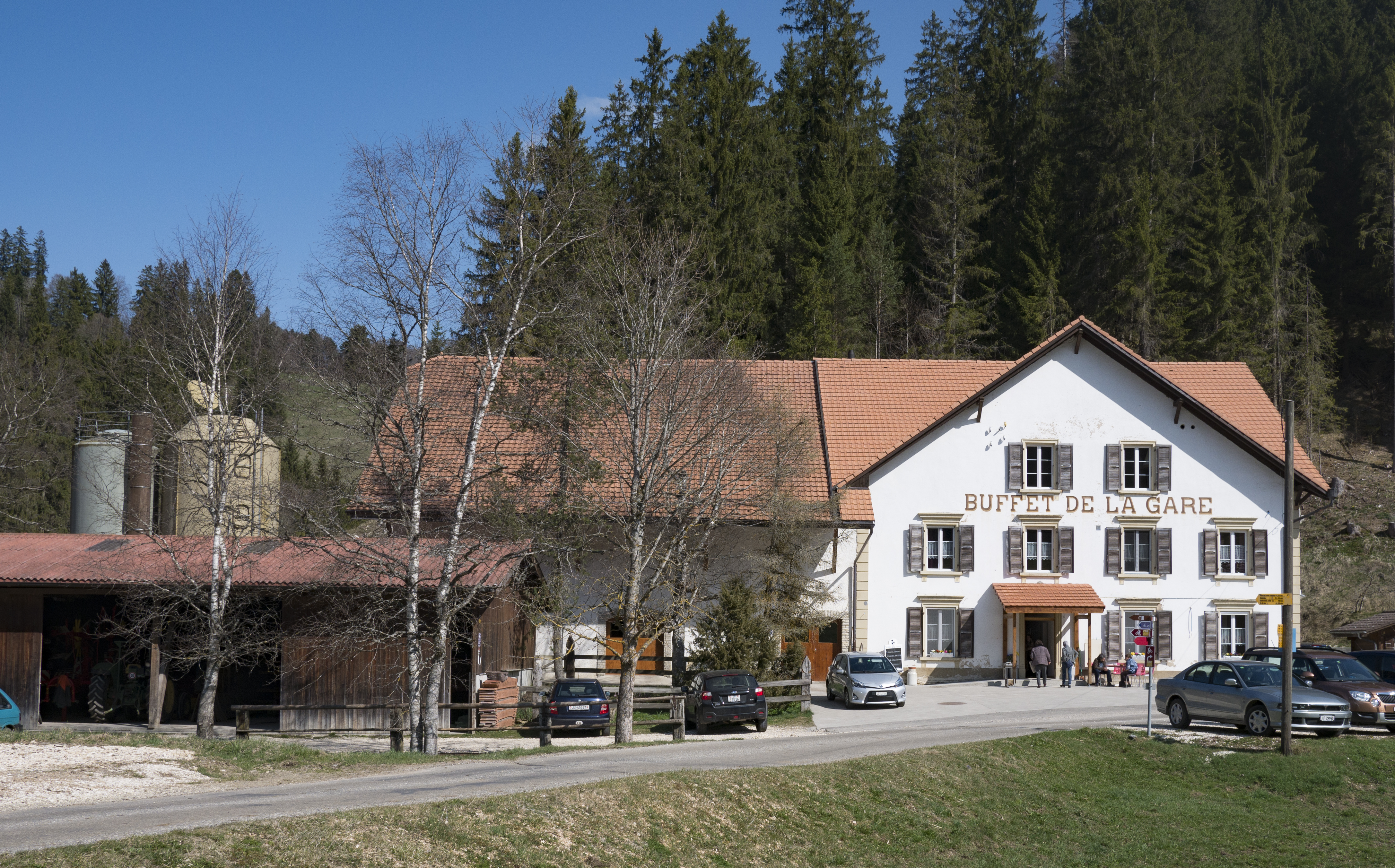 Buffet de la Gare, Lajoux, Canton of Jura, Switzerland